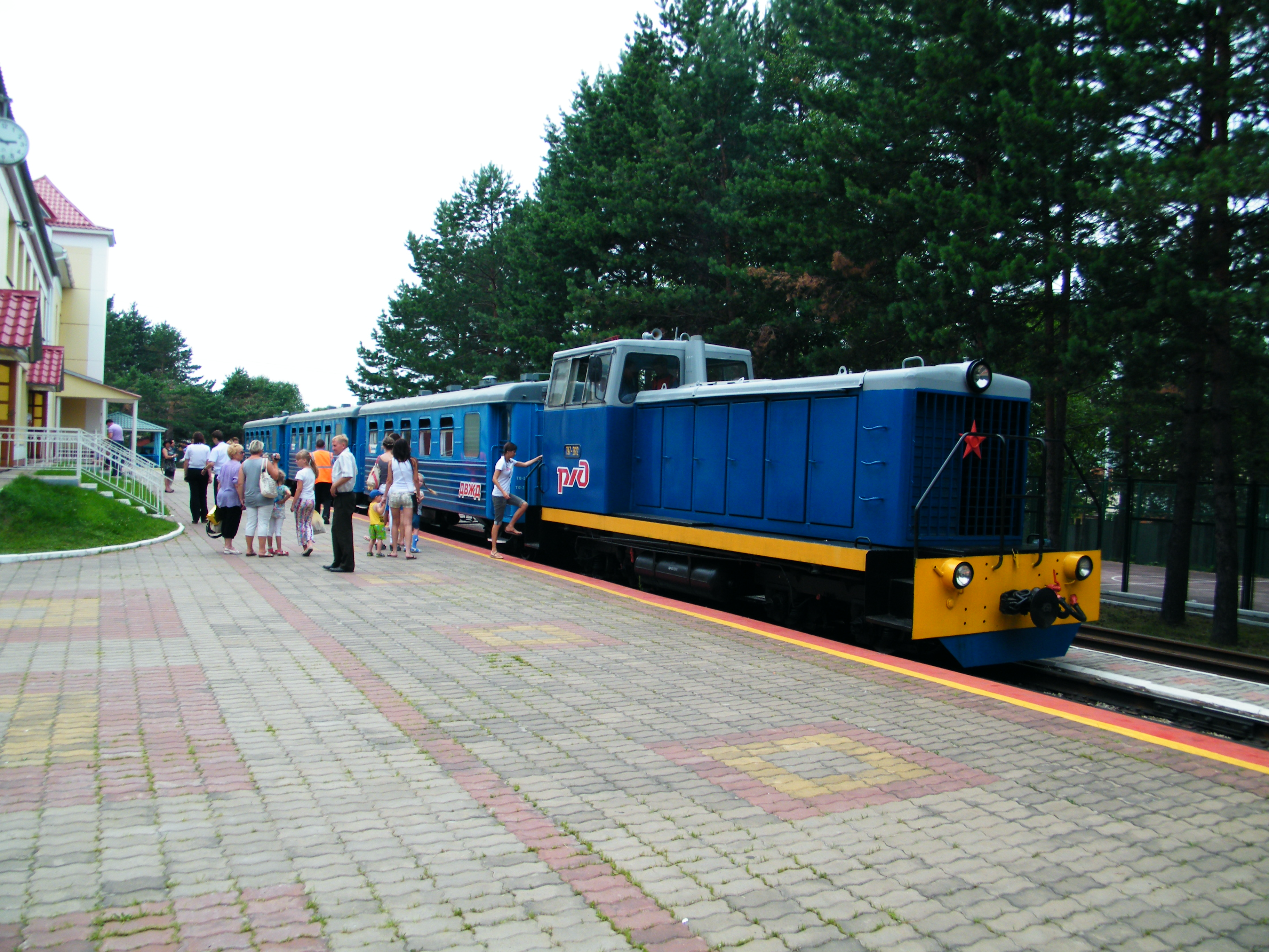 Malaya Dalnevostochnaya, Khabarovsk